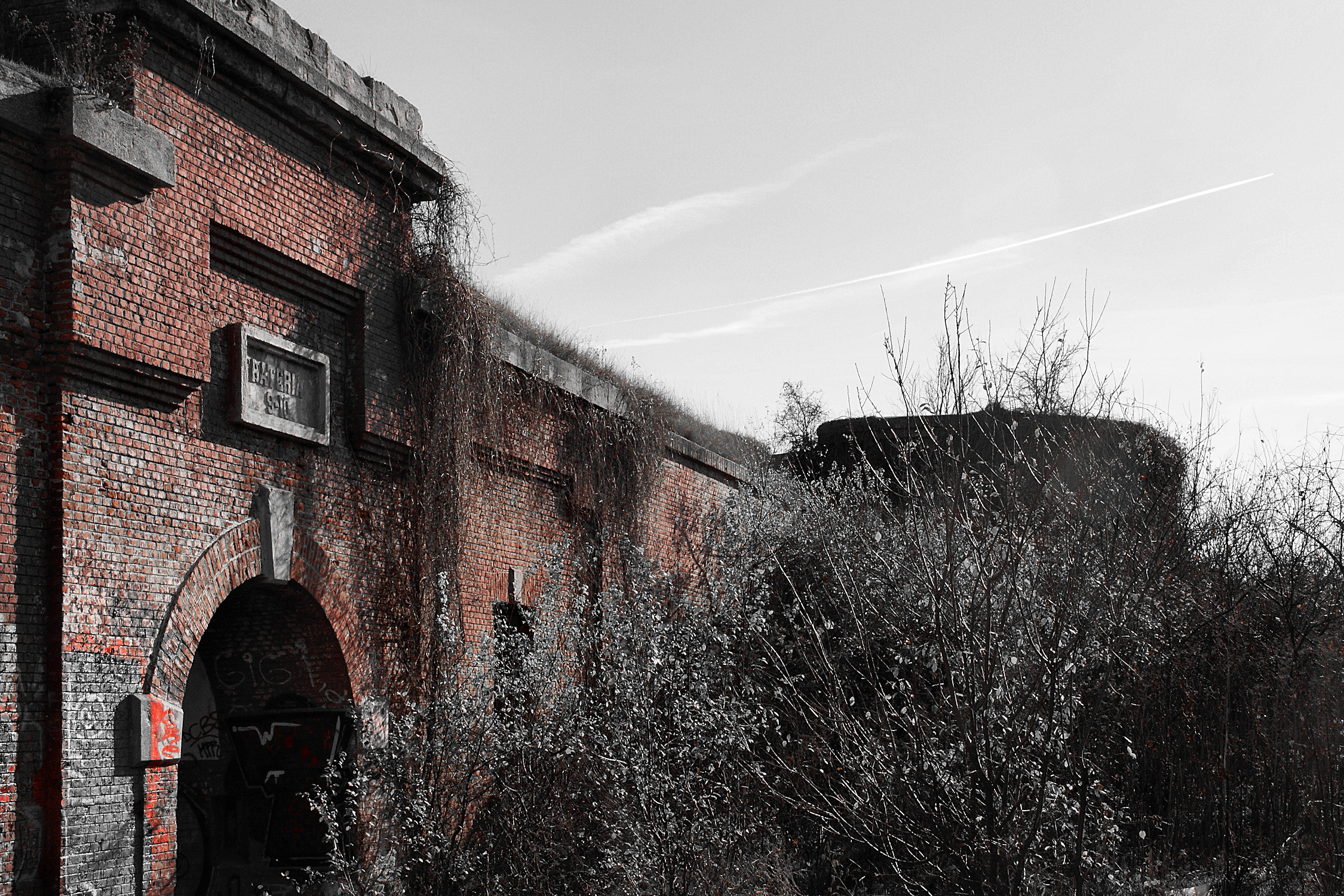 A perspective view of the main entrance to Battery 9-10. In the background on of the side turrets.